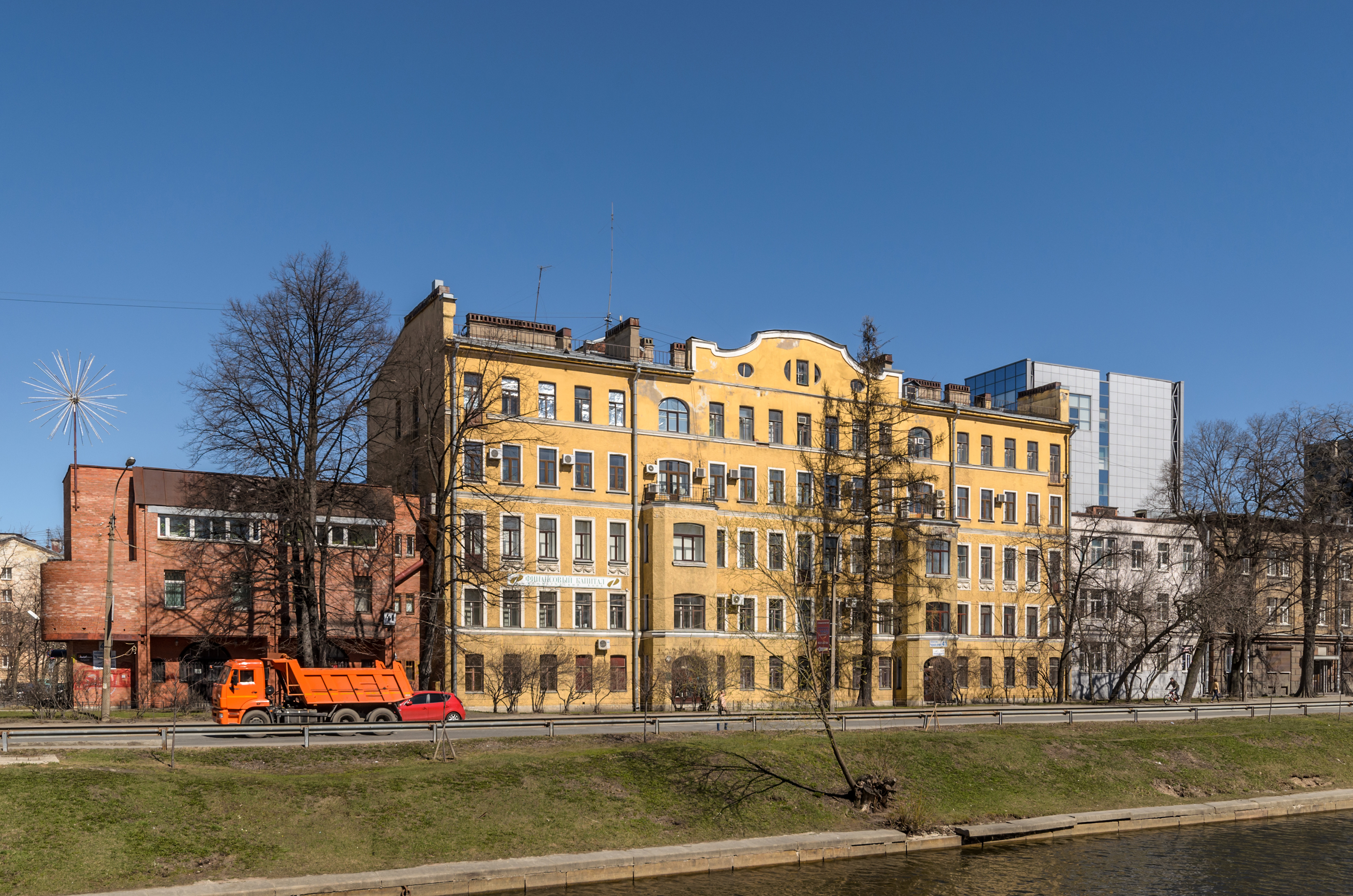 Apartment house at Chyornaya Rechka embankment in Saint Petersburg